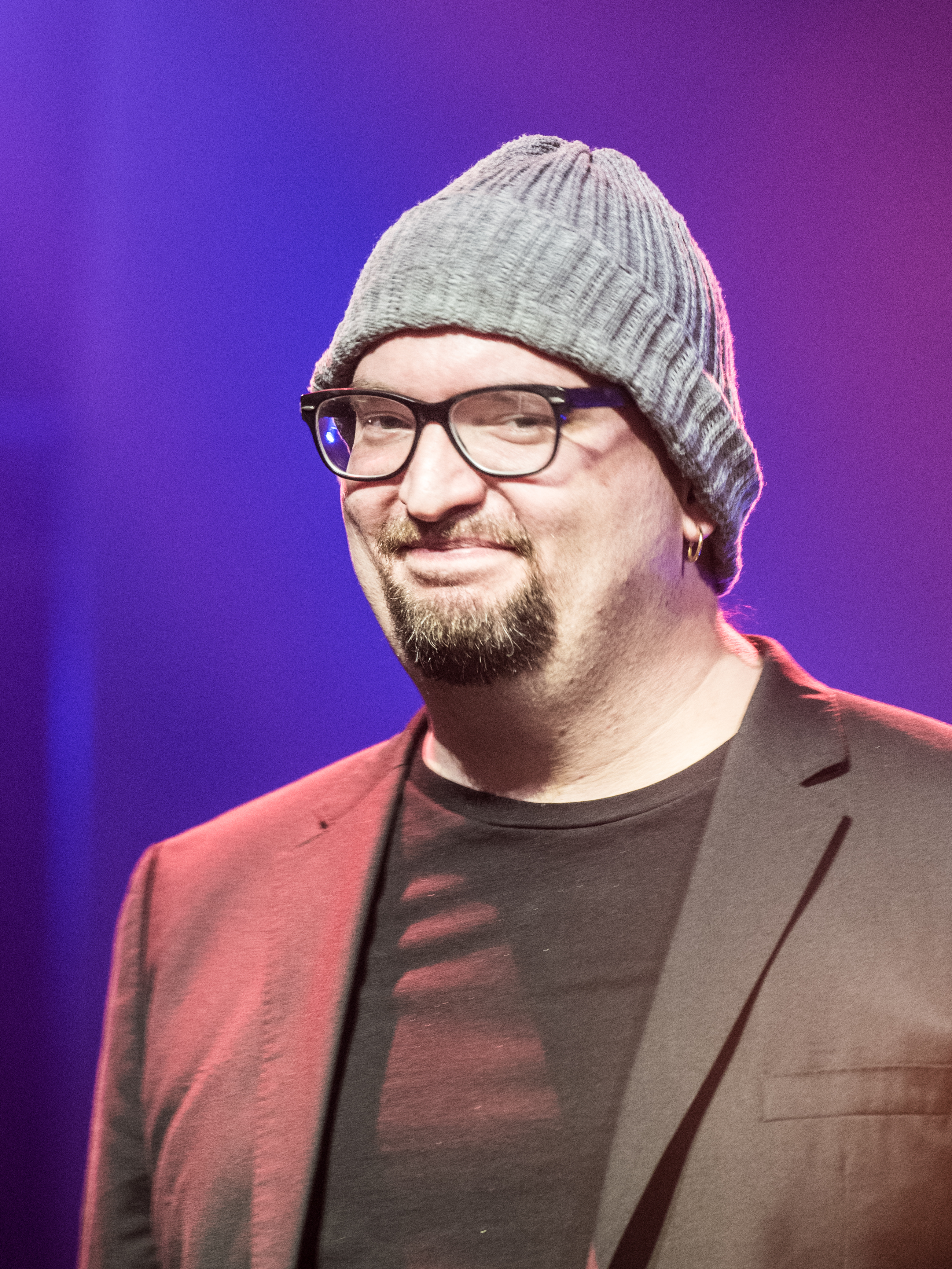 US-american jazz musician Ethan Iverson at the Moers Festival 2017